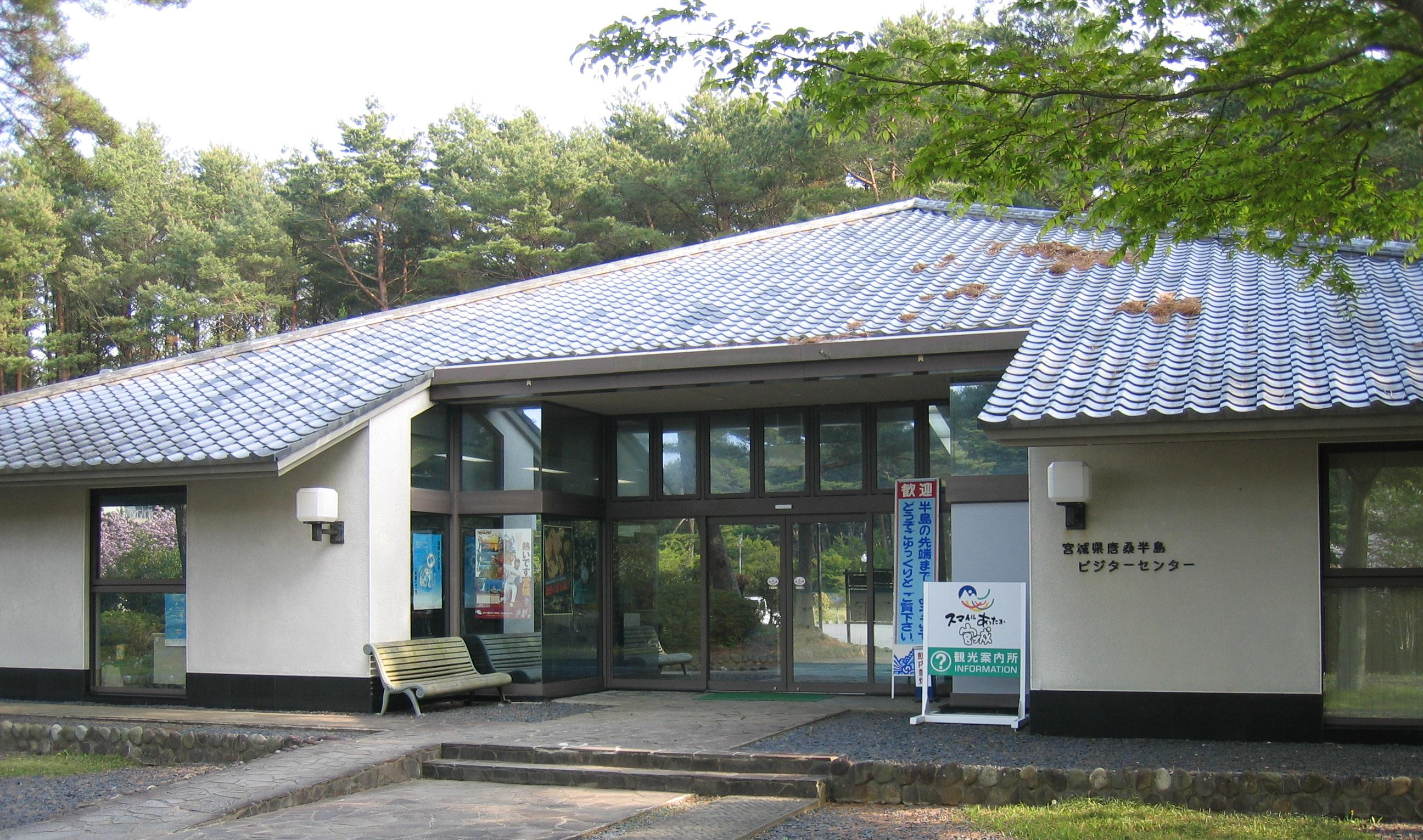 Karakuwa Peninsula Visitor Centre